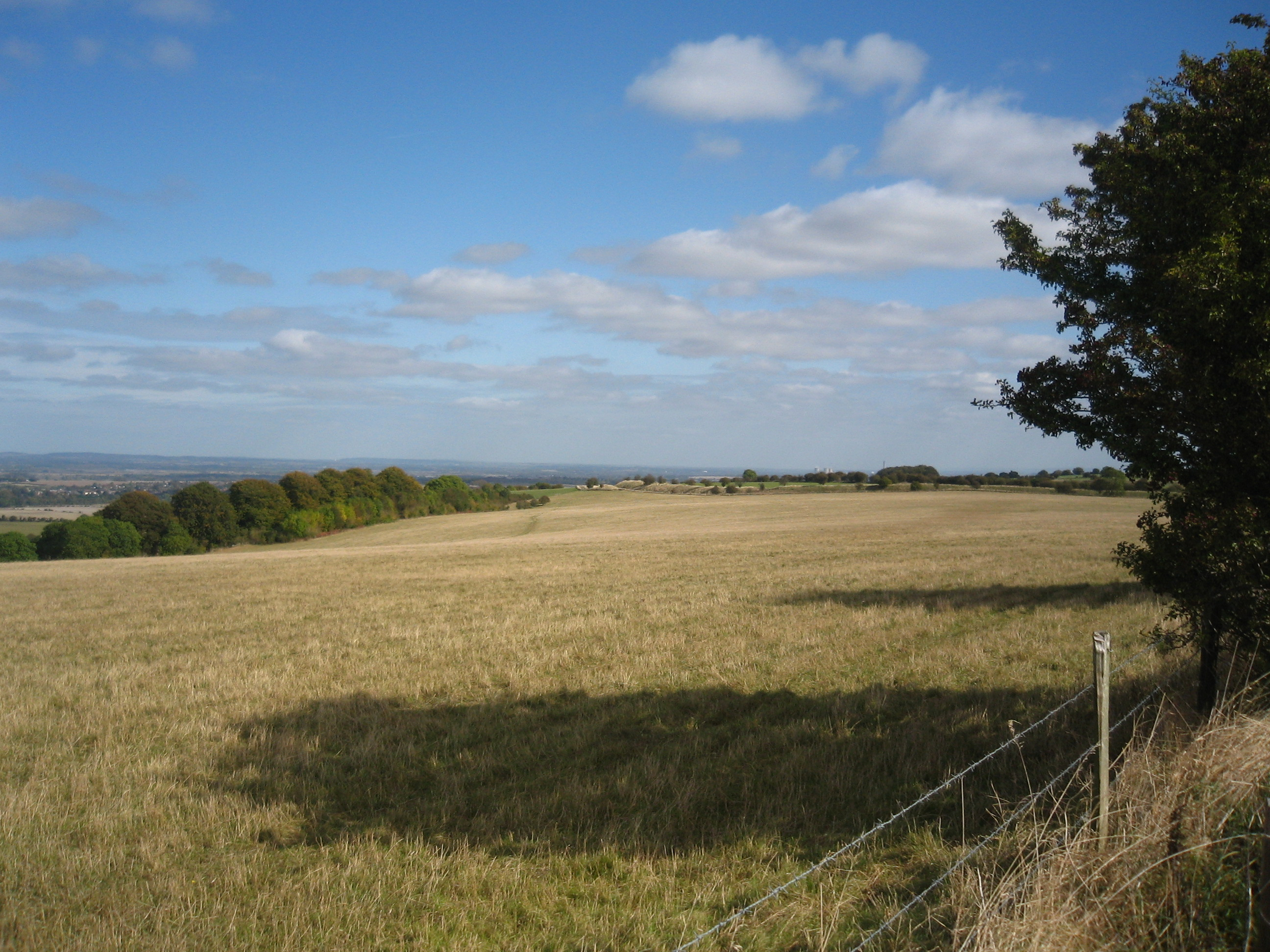 Segsbury Camp aka Letcombe Castle iron age fort from the Ridgeway, Letcombe Bassett, Oxfordshire